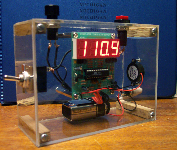 Photograph of a simple digital timer my group built for an engineering project. Taken by Miles Kaufmann.